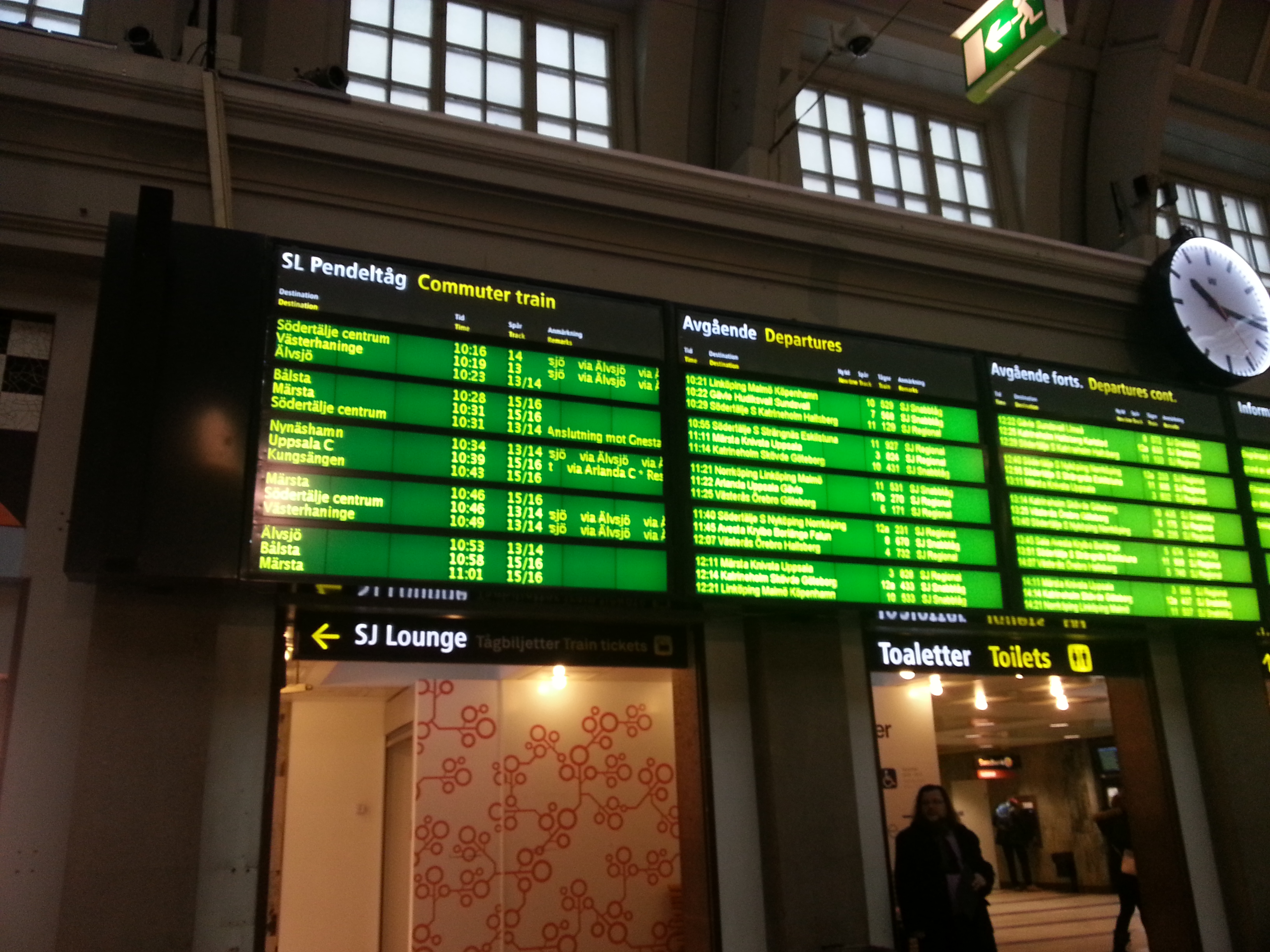 Trafikinformation Stockholm Central